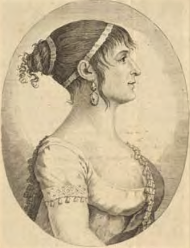 Portrait of the Italian opera singer Elisabetta Gafforini (1777–1847) published with a poem in her praise in 1801 to coincide with her first season singing at La Scala.